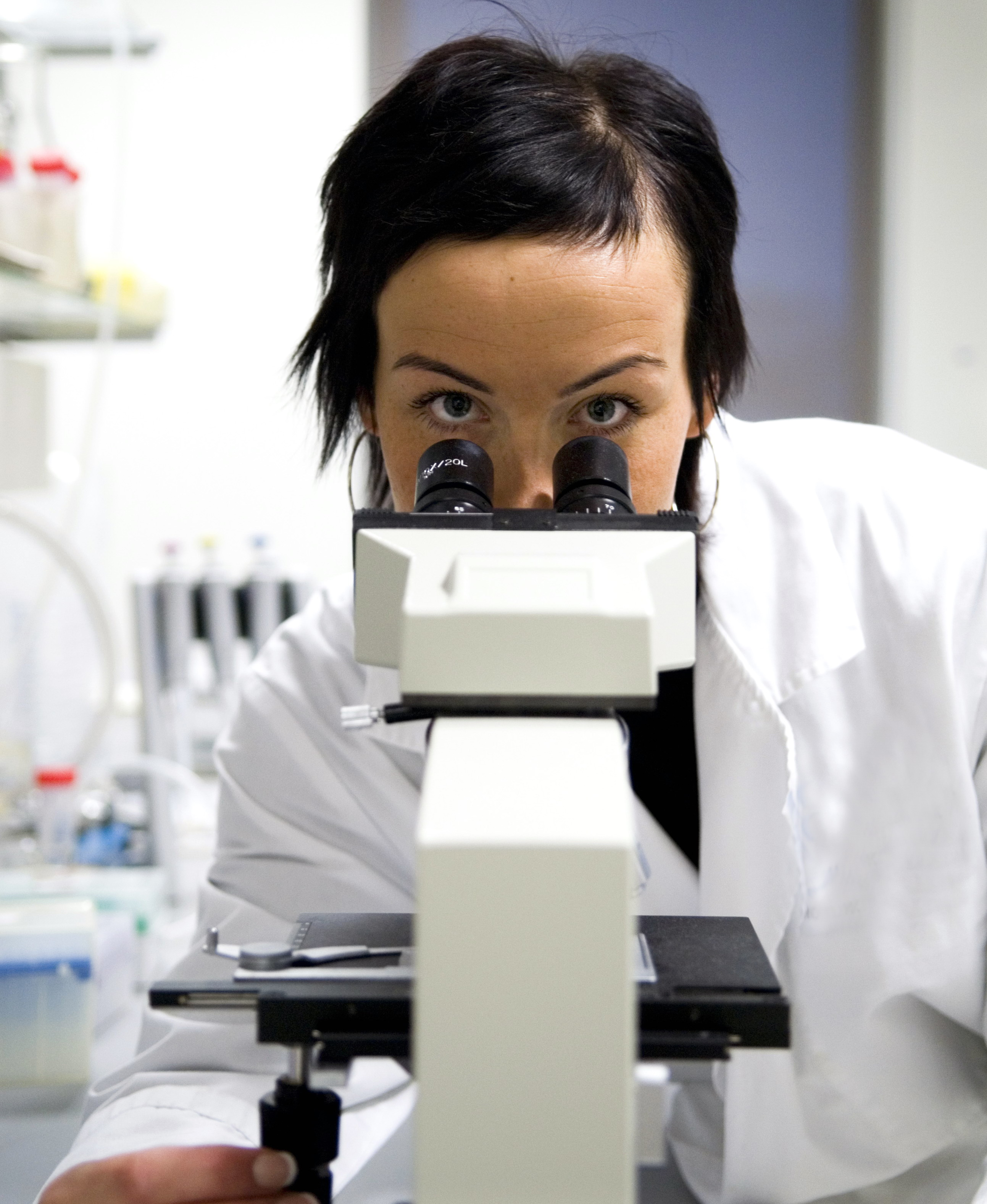 Biotechnologist Laufey Hrólfsdóttir uses a microscope.